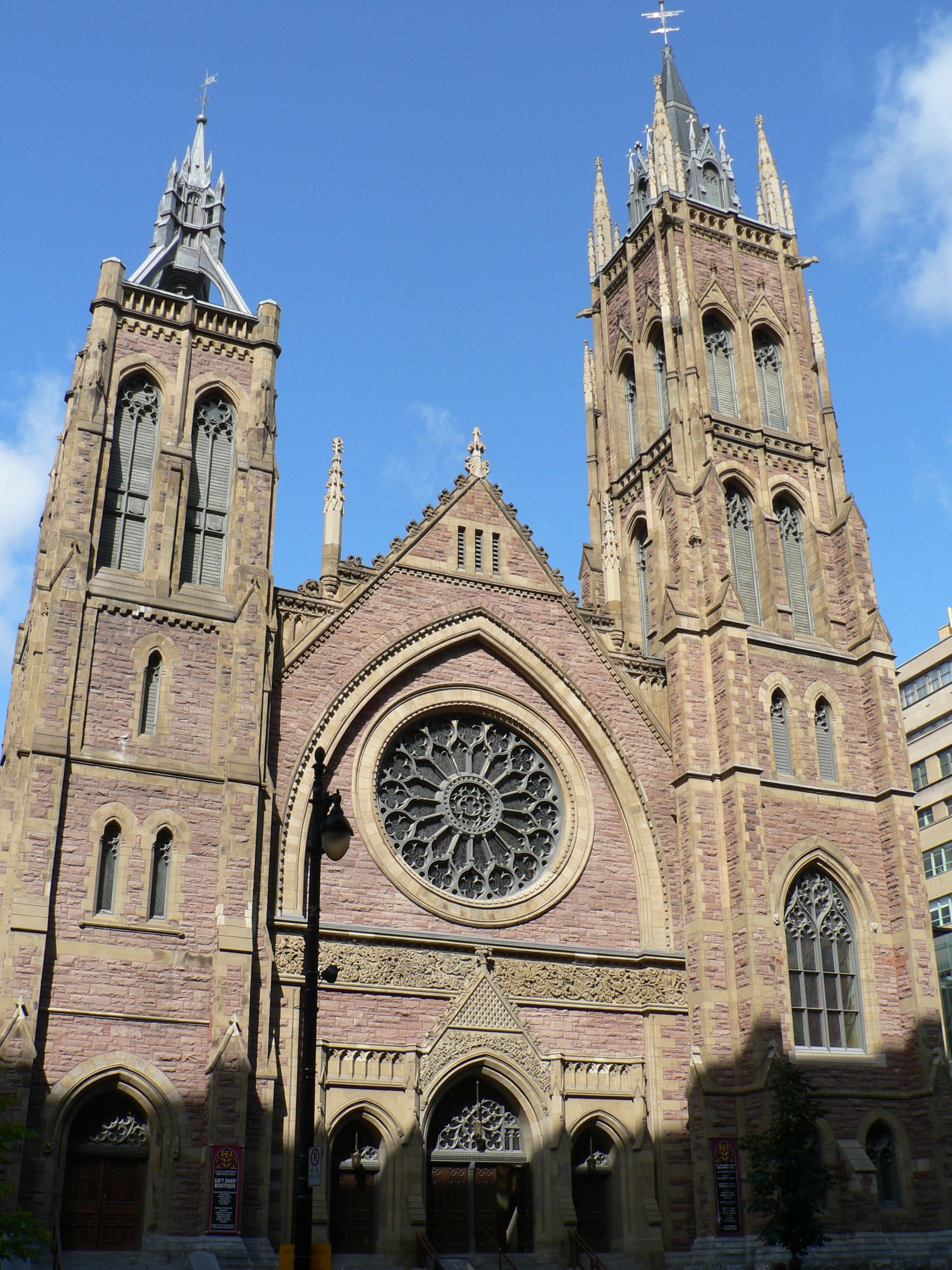 St. James United Church in Montreal, front cleared in 2005.